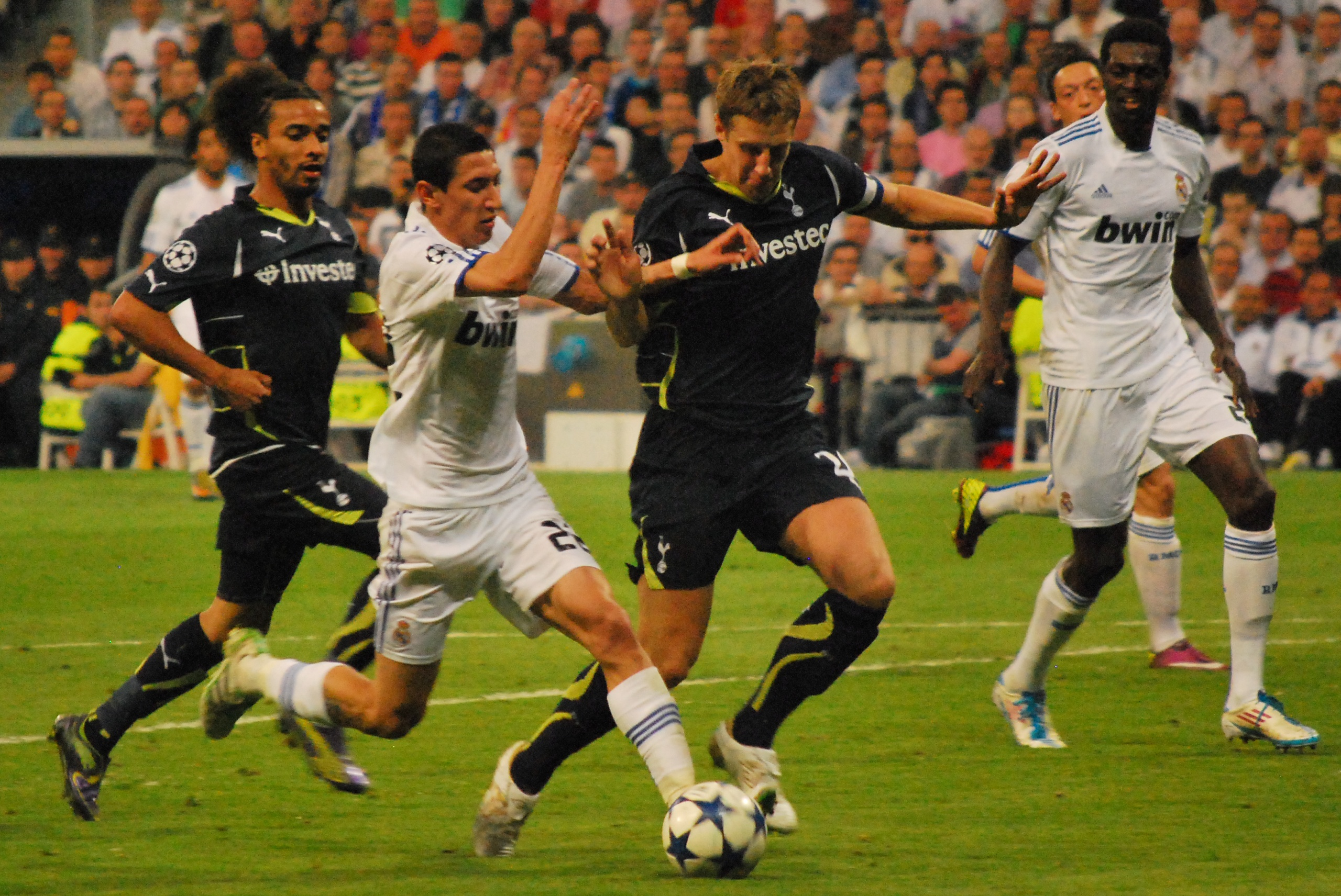 Angel Di María of Real Madrid defended by Michael Dawson of Tottenham Hotspur. Benoît Assou-Ekotto to the left, Emmanuel Adebayor to the right.